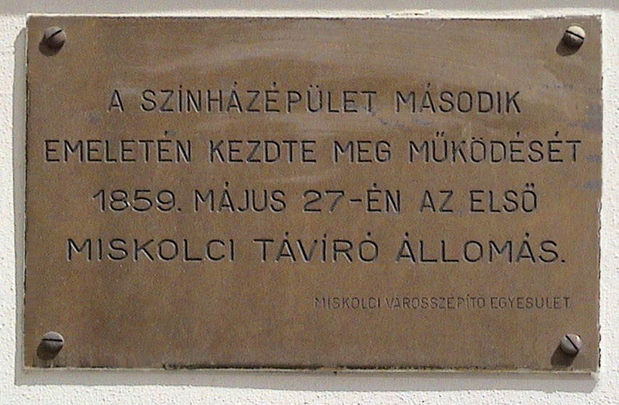 Memorial tablet about the first Telegraph Station on the wall of National Theatre of Miskolc, Miskolc, Hungary